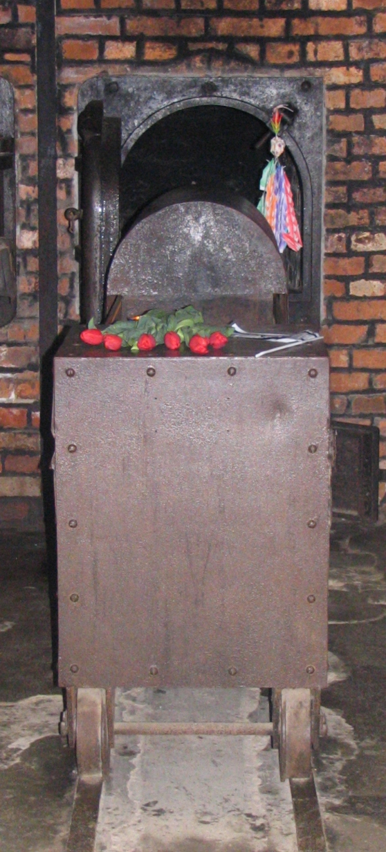 Auschwitz I crematorium